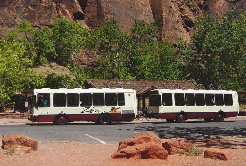 Zion shuttle bus.